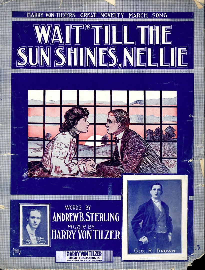 1905 sheet music cover for "Wait 'Til the Sun Shines, Nellie" Cover has insert photos of songwriter/publisher Harry Von Tilzer and of singer Geo Brown.